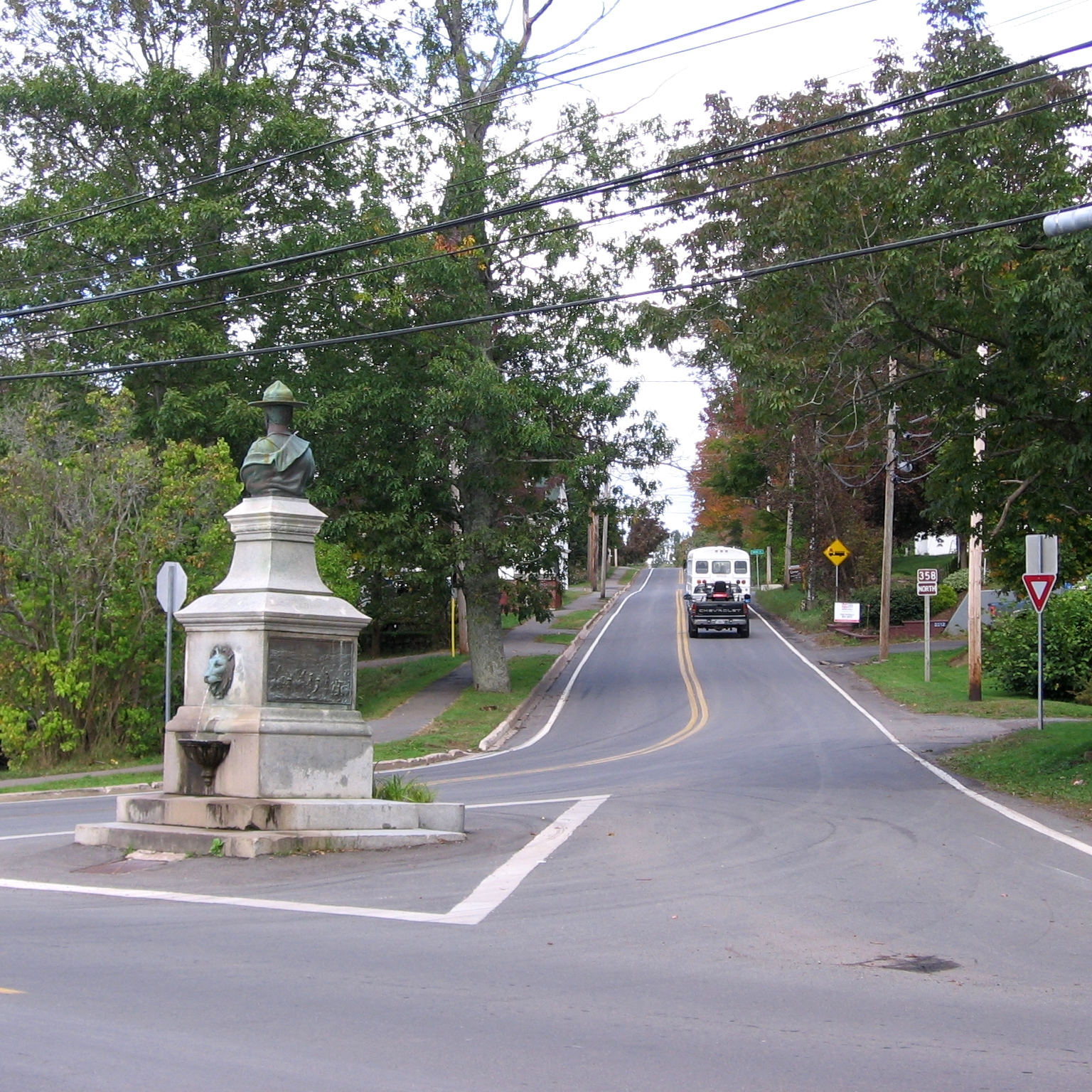 Photograph of Route 358 in Canning, Nova Scotia, showing Borden monument on the left. This section of the highway is locally known as north Street. The monument commemorates Lt. Harold Lathrop Borden of Canning who was killed in the Boer War (July 16, 1900).